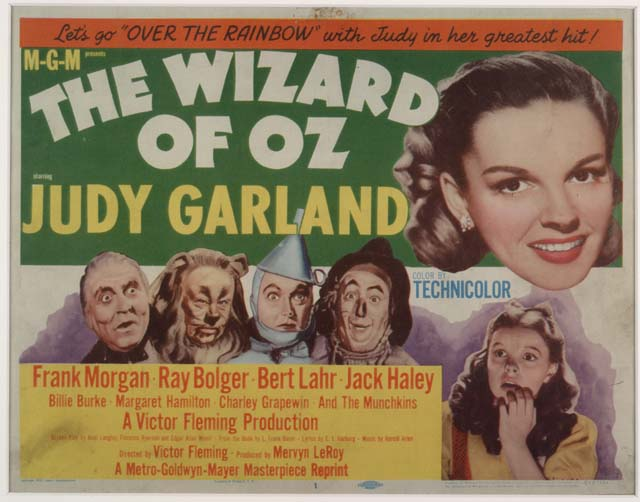 Lobby card for the 1955 re-release of The Wizard of Oz (1939).